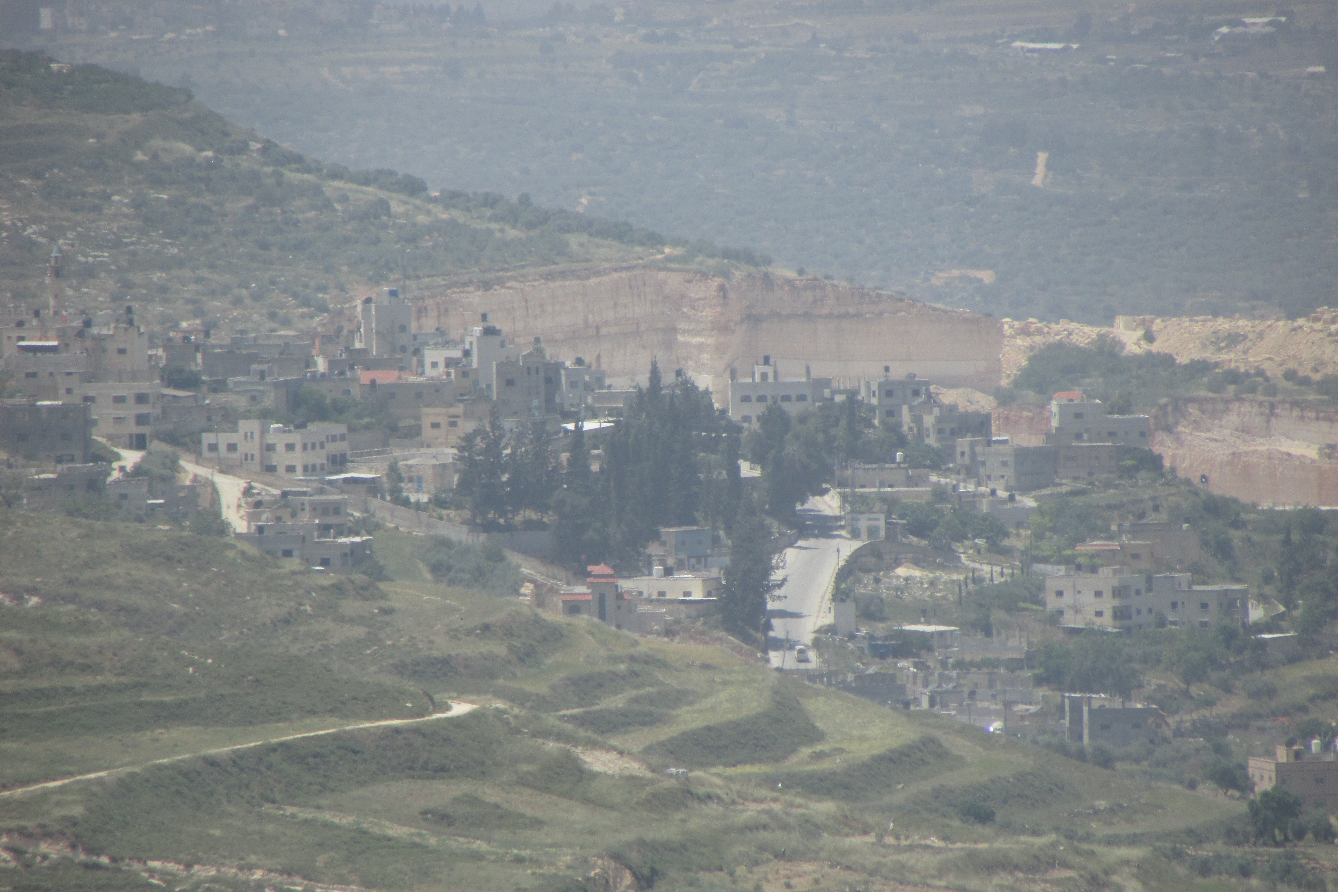 Houses of Asira al-Qibliya viewed from the east. From this angle only a small part of the village is seen.